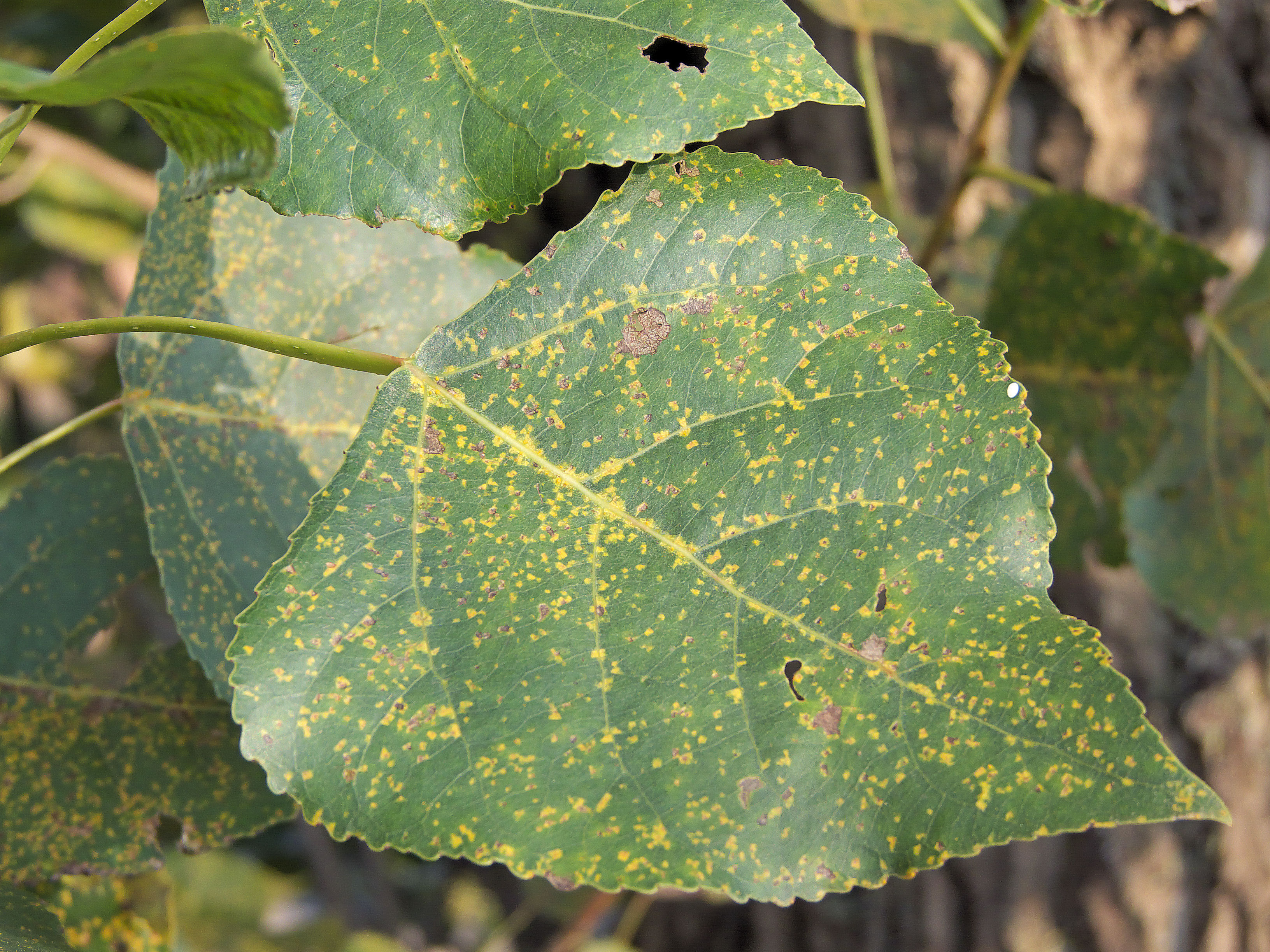 Populus ×canadensis, Melampsora larici-populina uredinia on the lower leaf surface